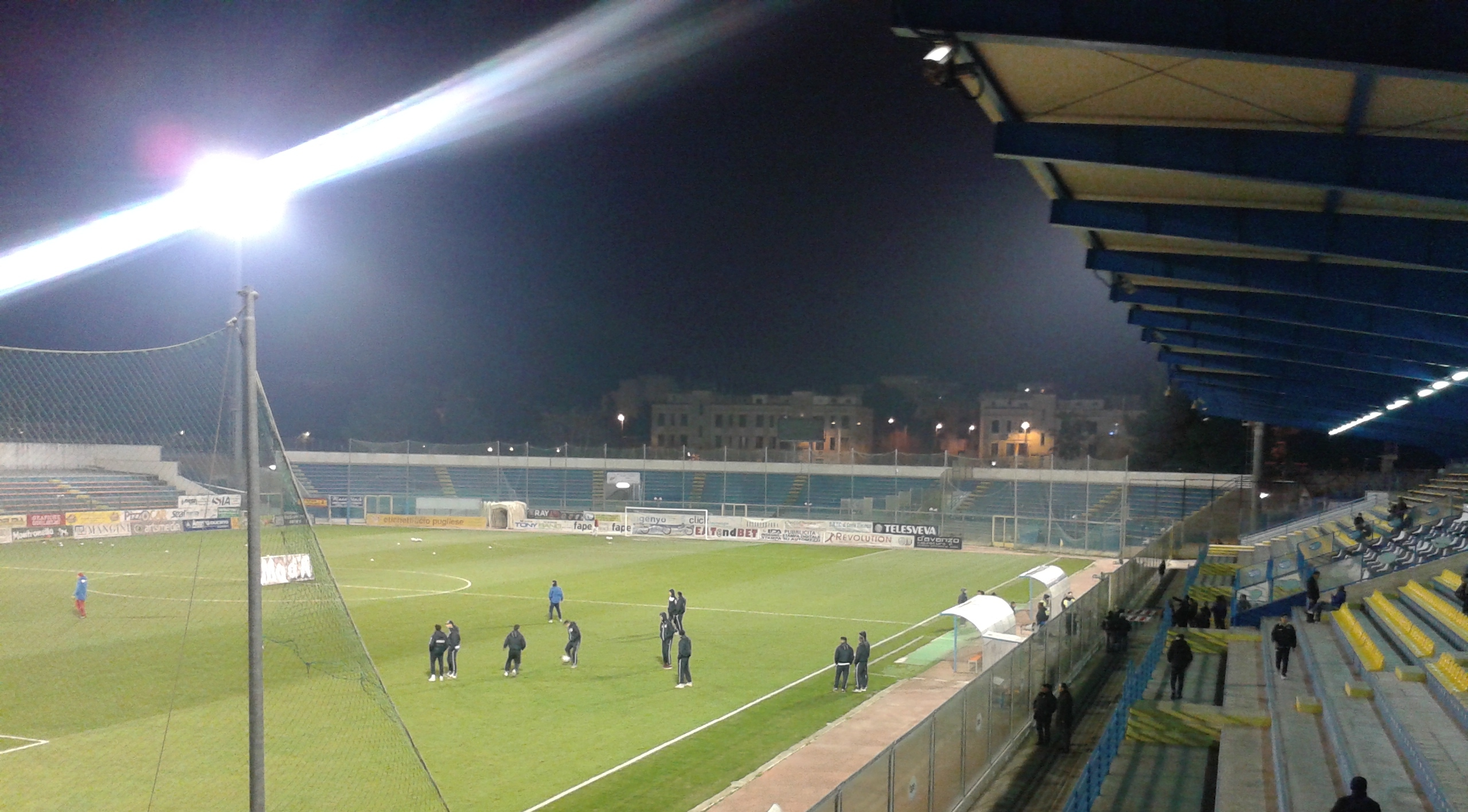 Degli Ulivi stadium, Andria